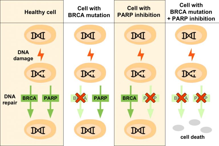 two hit model